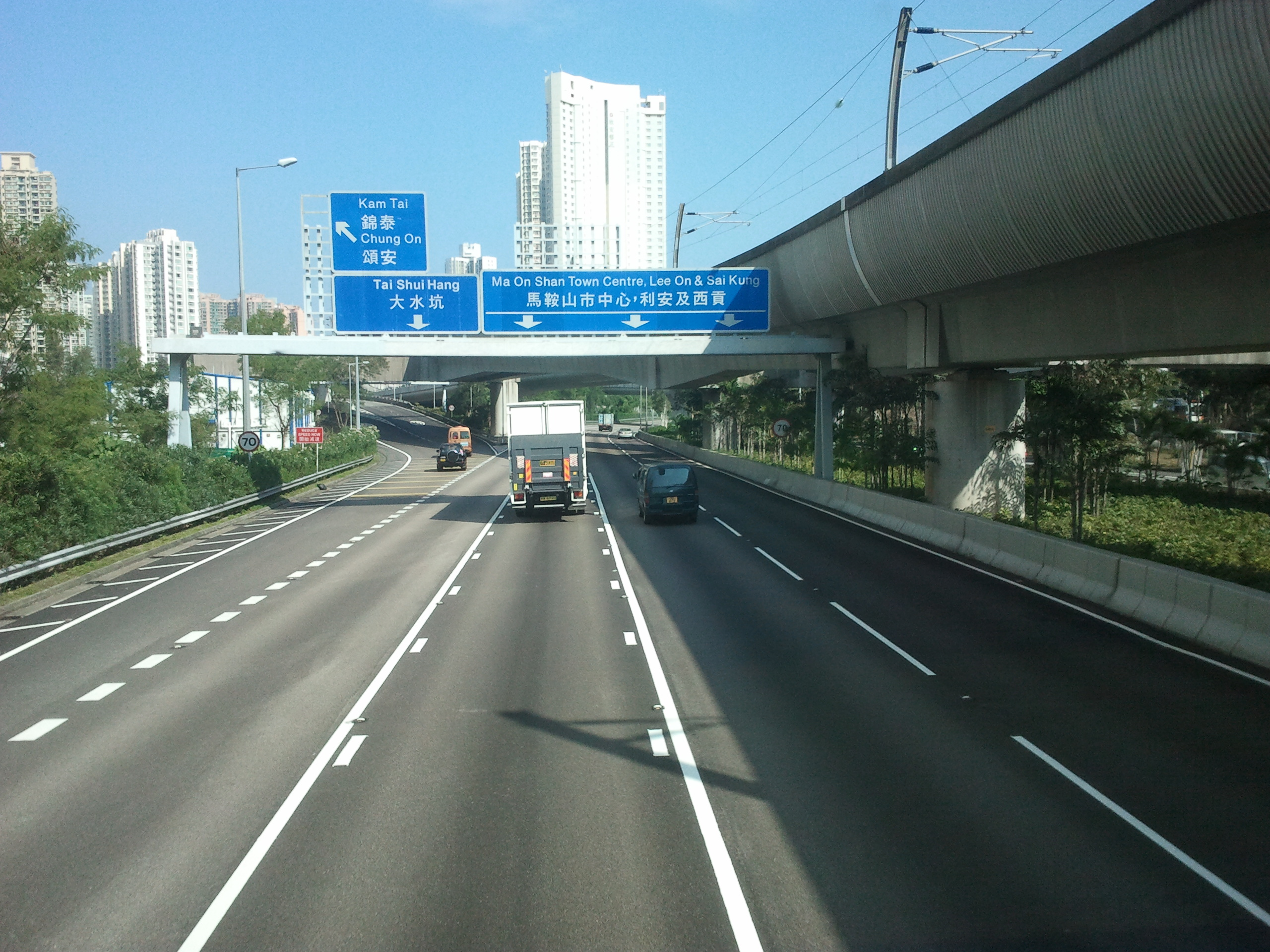 Ma On Shan Road